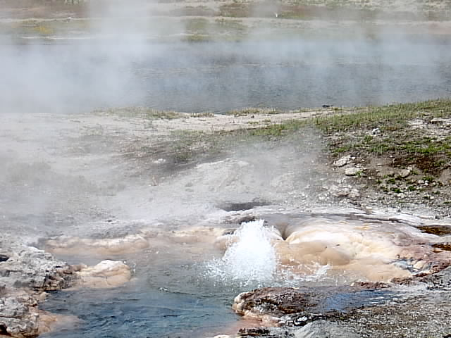 Detail of the (constantly) spouting Young Hopeful Geyser, in the in the Lower Geyser Basin of Yellowstone National Park, without its sign and most of its associated pool.